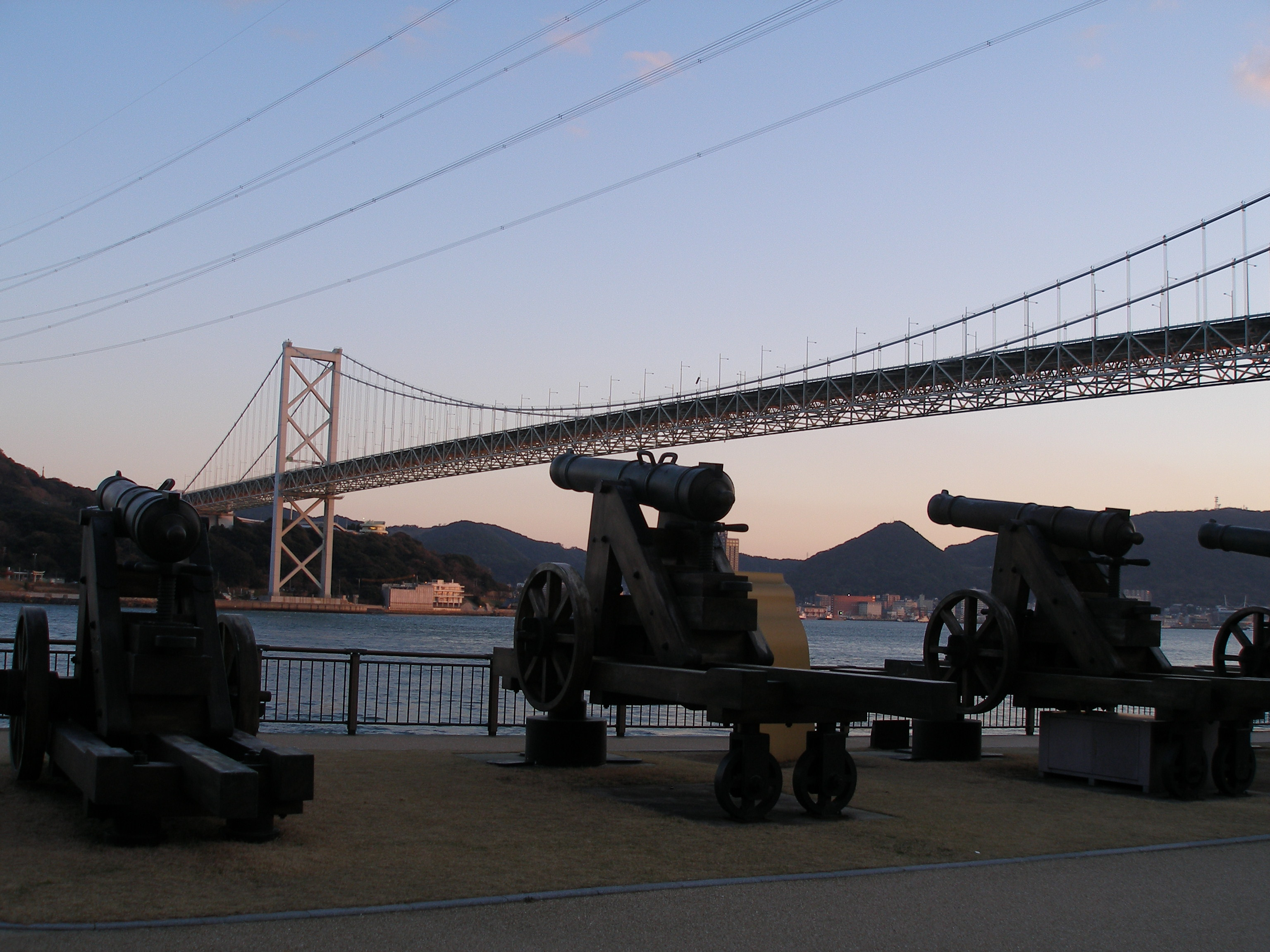 A picture of the cannons marking the Battle of Shomonoseki